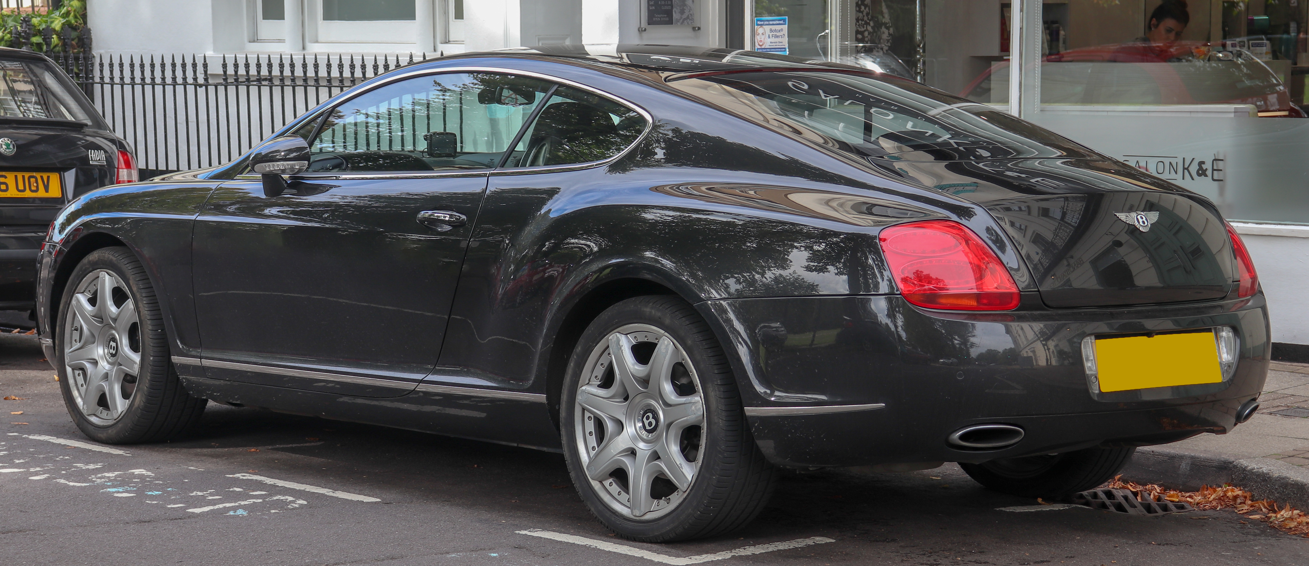 2007 Bentley Continental GT Automatic 6.0 Rear Taken in Leamington Spa